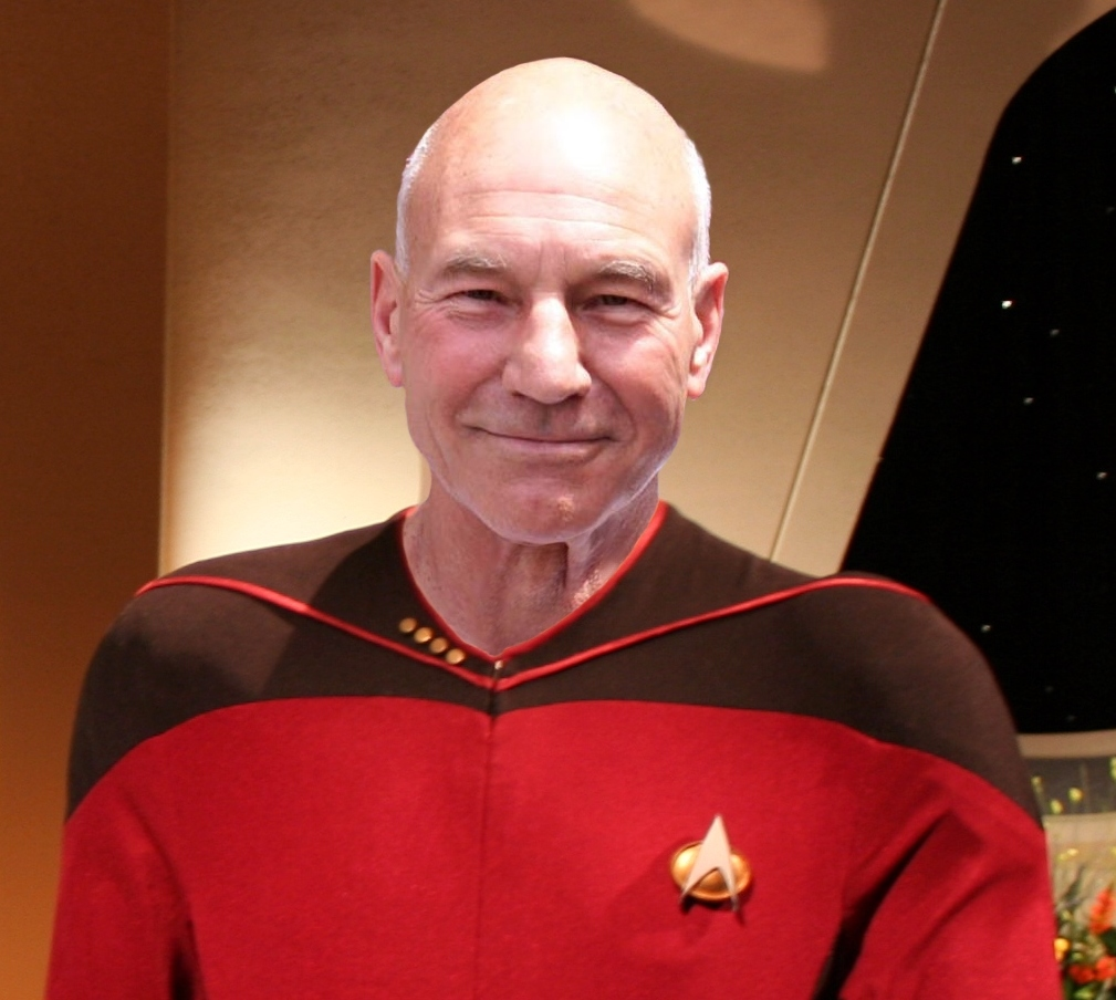 A derivative collage from two other files - captain Jean-Luc Picard in his quarter on the USS Enterprise-D